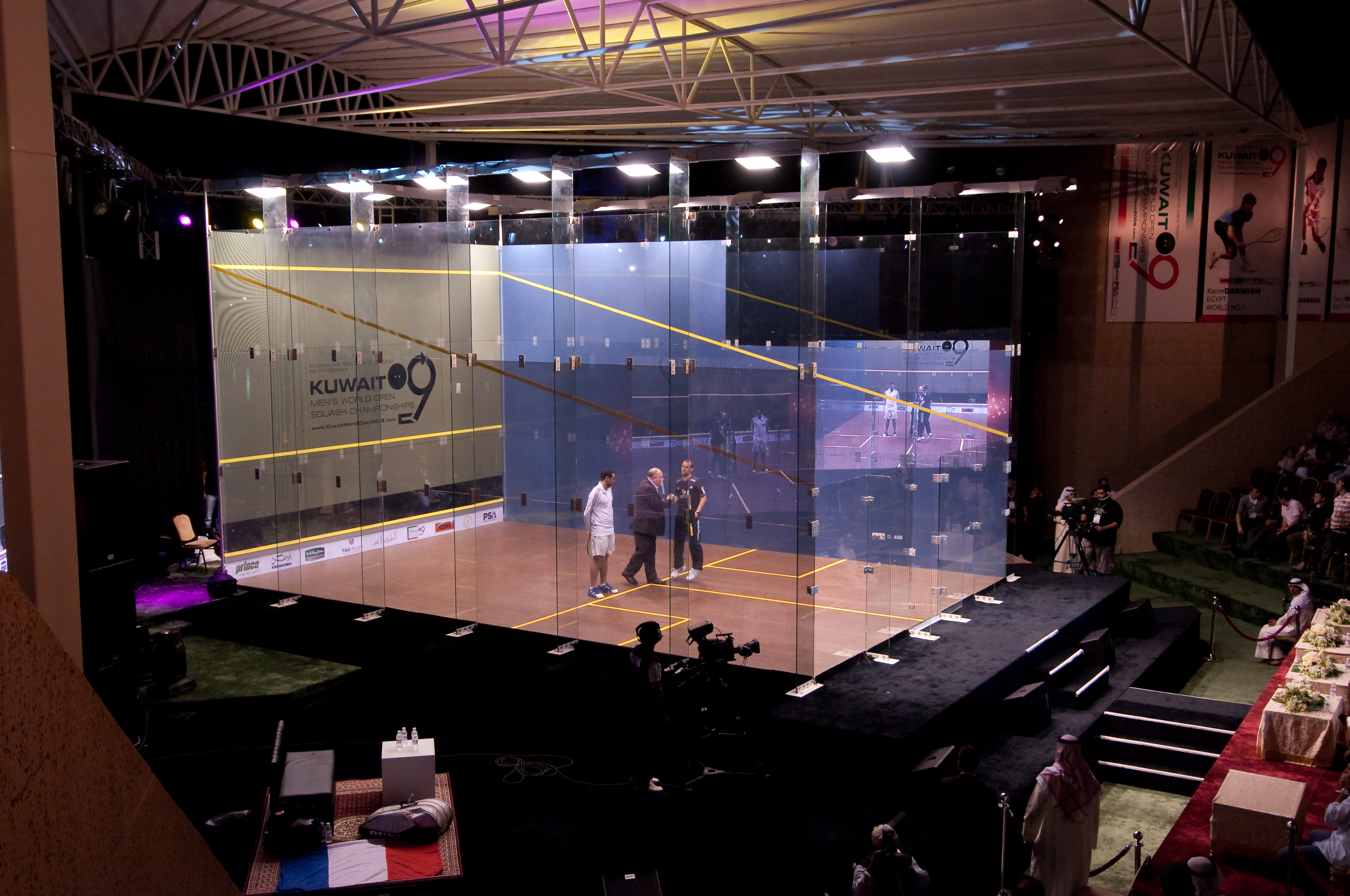 Introducing Ramy Ashour of Egypt who beat France's world number one Gregory Gaultier in the second semi final